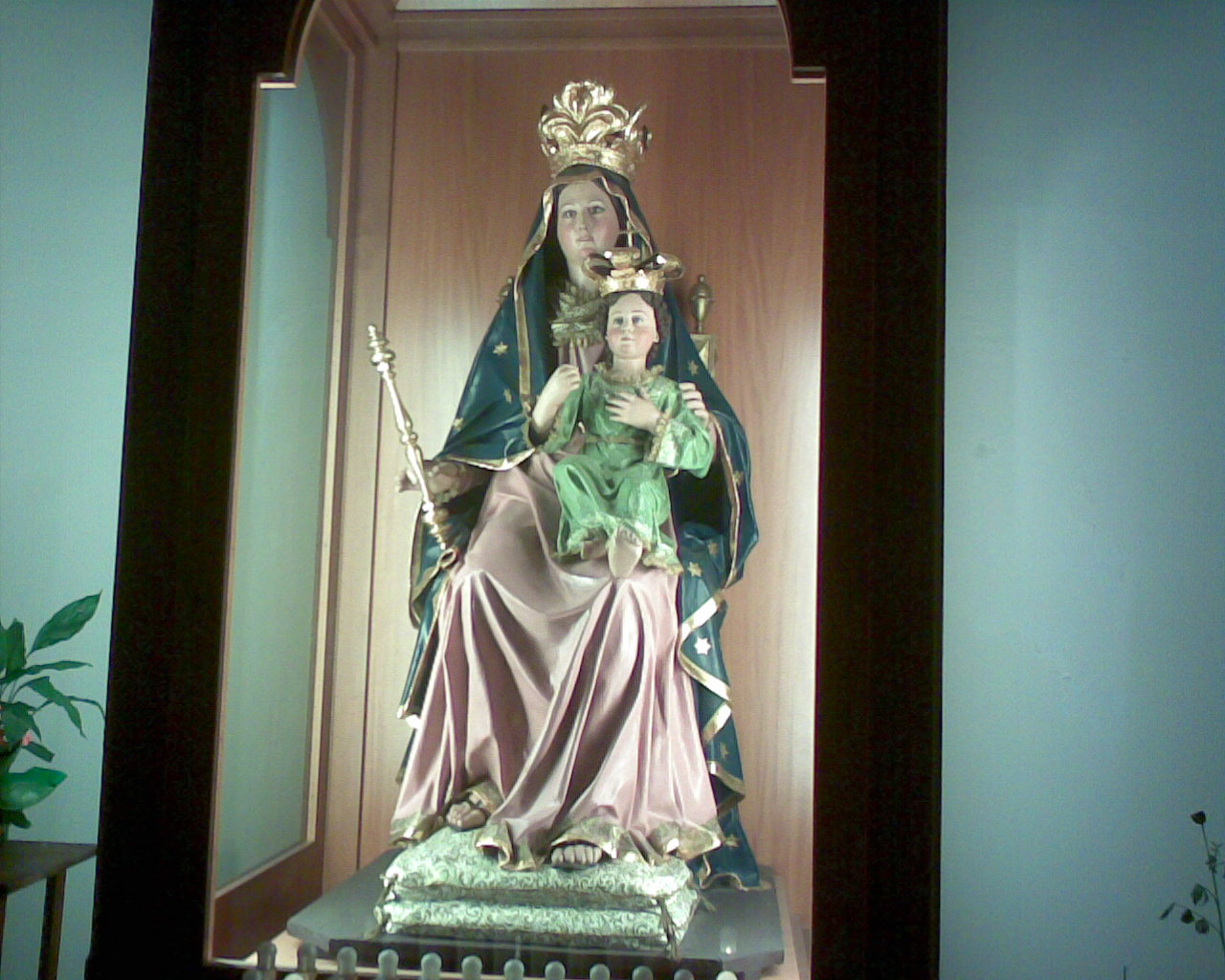 Statue of Our Lady of Piedigrotta of St Francis church in Taranto